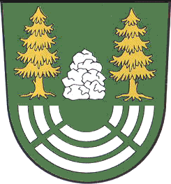 Coat of Arms of Steinbach